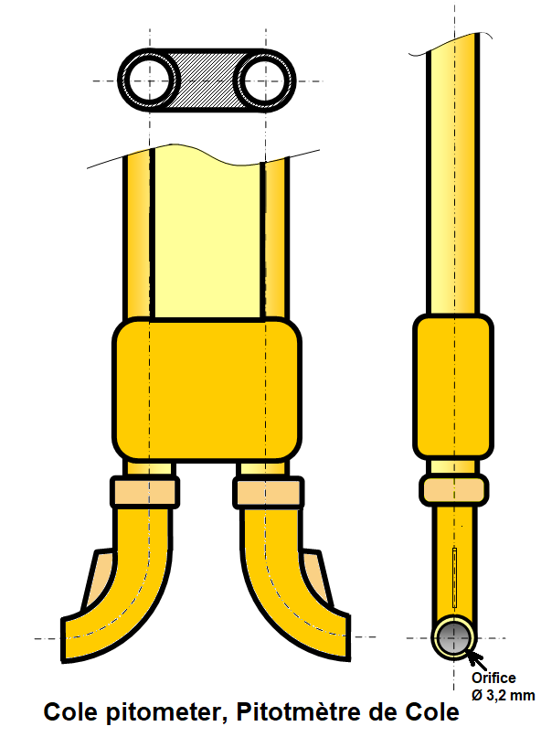 Cole pitotmeter, also called "S pitometer" or "reversible pitometer". This device is introduced into the pipes to determine the speed of the fluid flowing there.